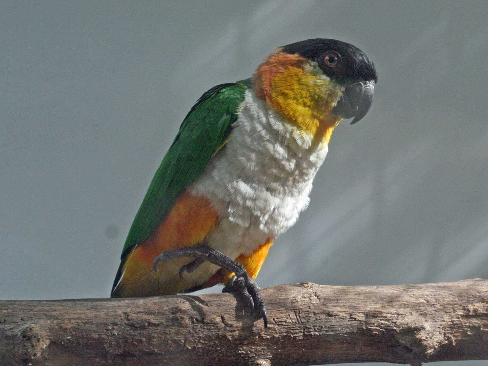 Black-headed Parrot (Pionites melanocephalus) - Jungle Island of Miami